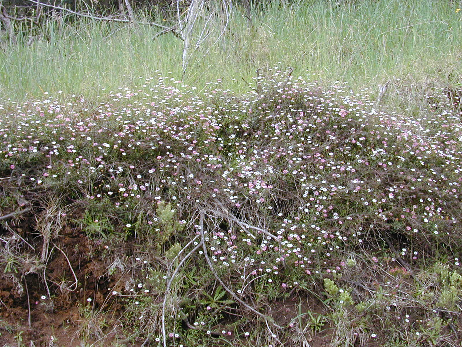 Erigeron karvinskianus (habit). Location: Maui, Polipoli